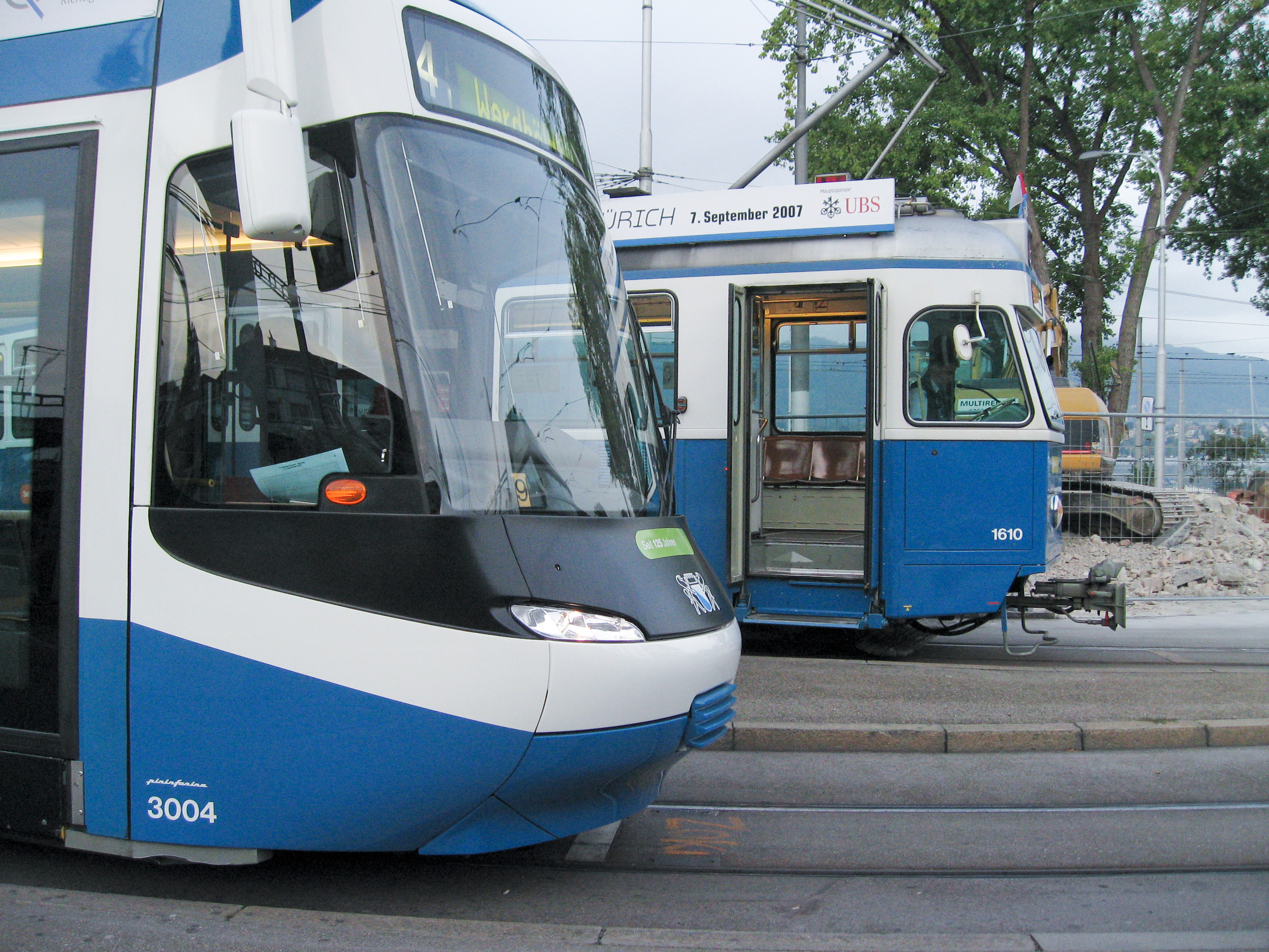 Bombardier Cobra tram (streetcar) 3004 and Mirage tram 1610, at the terminus that forms part of the Tiefenbrunnen railway station in Zürich